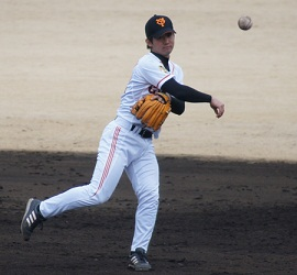 Giants_matsutomi_003